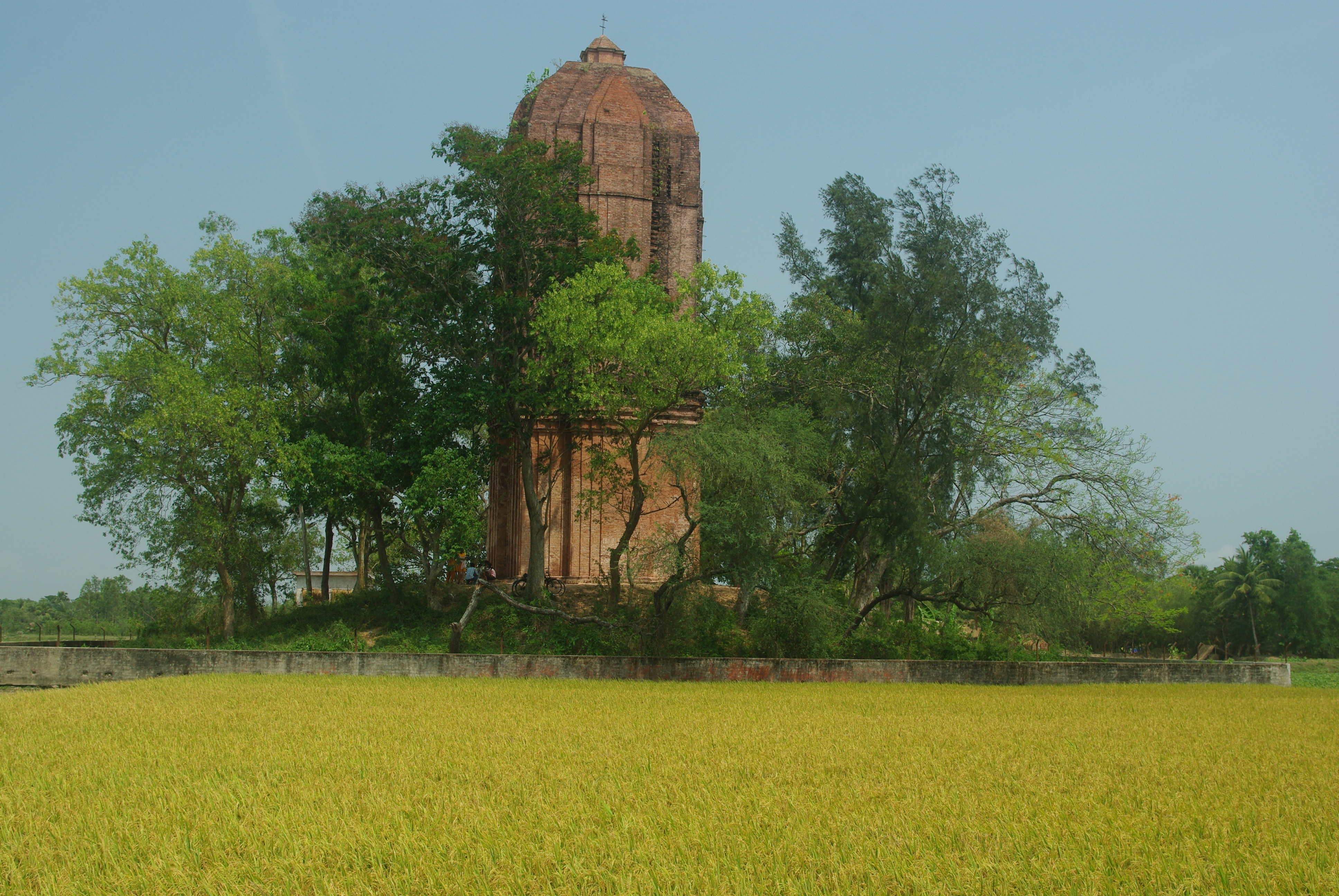 Jatar Deul Temple at Raidighi